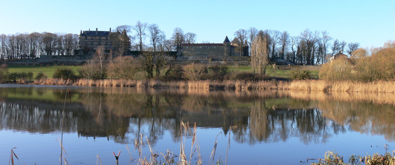 Panorama on the castle of Hombourg, in Hombourg-Budange, Lorraine, France.